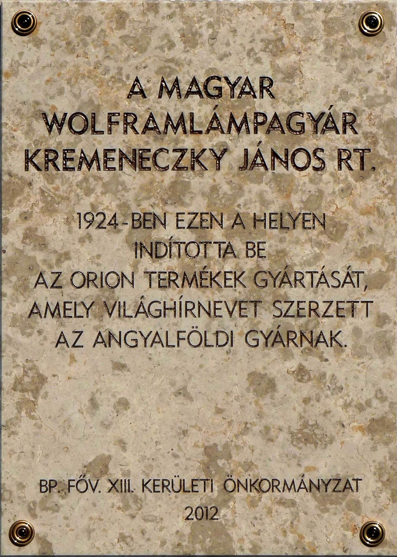 Commemorative plaque to the fondation of the Magyar Wolframlámpagyár Kremeneczky János Ltd (now: Orion Electronics Ltd), affixed to the wall of the building erected on the site where was the factory. It was unveiled on May 9, 2012. (Budapest, District XIII, Váci Avenue Nr 99).